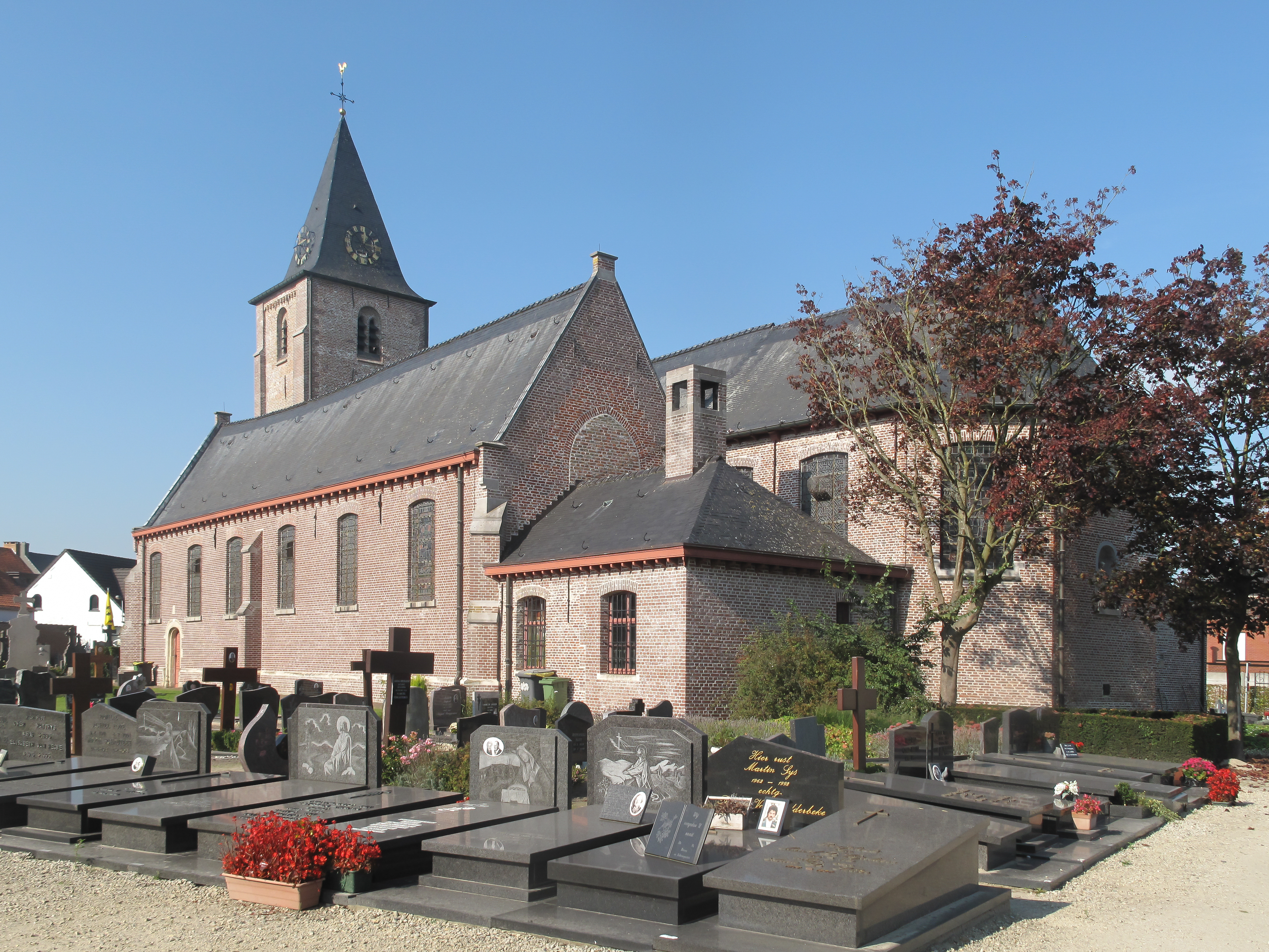 Oostwinkel, church